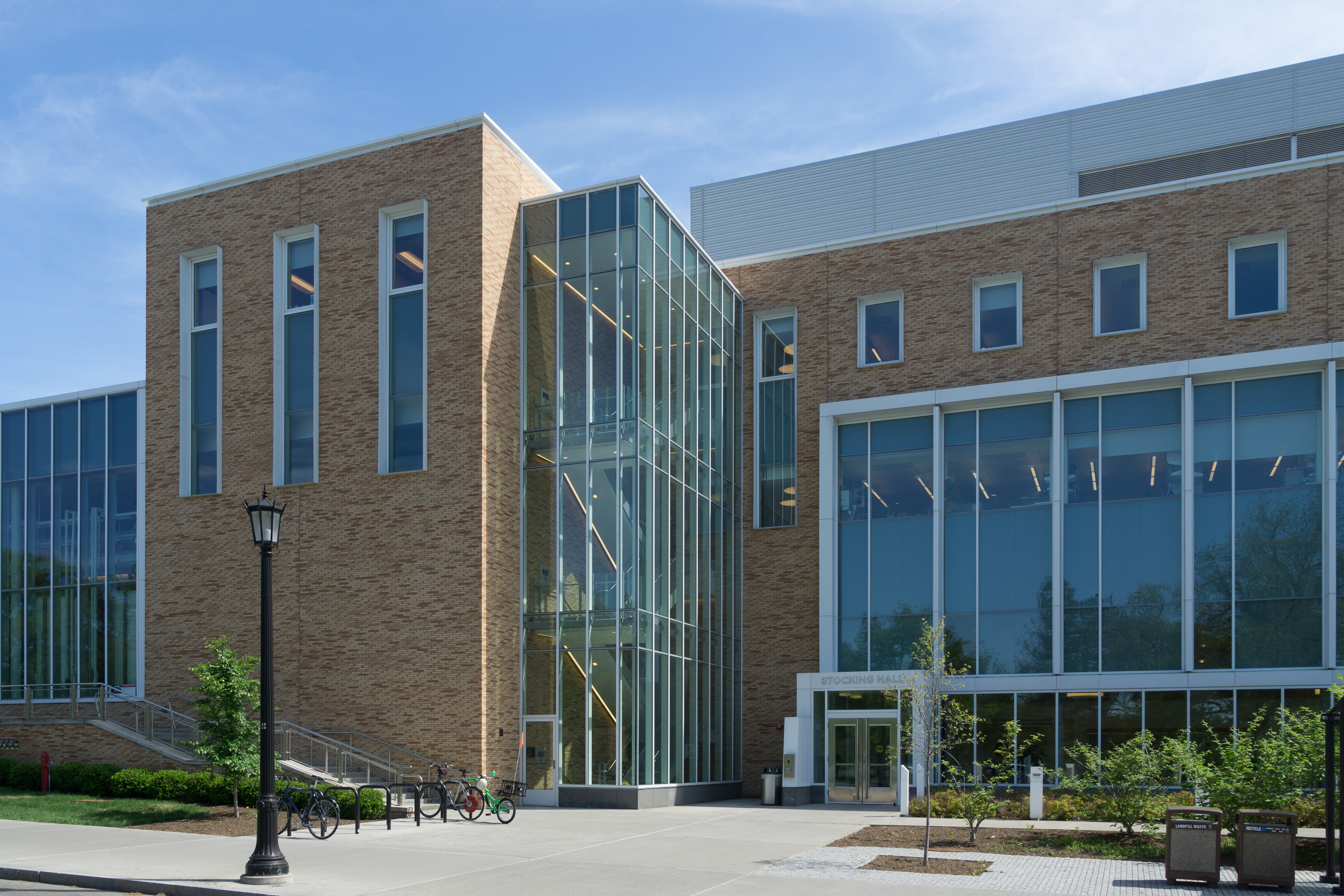 Stocking Hall Cornell University, Ithaca, NY